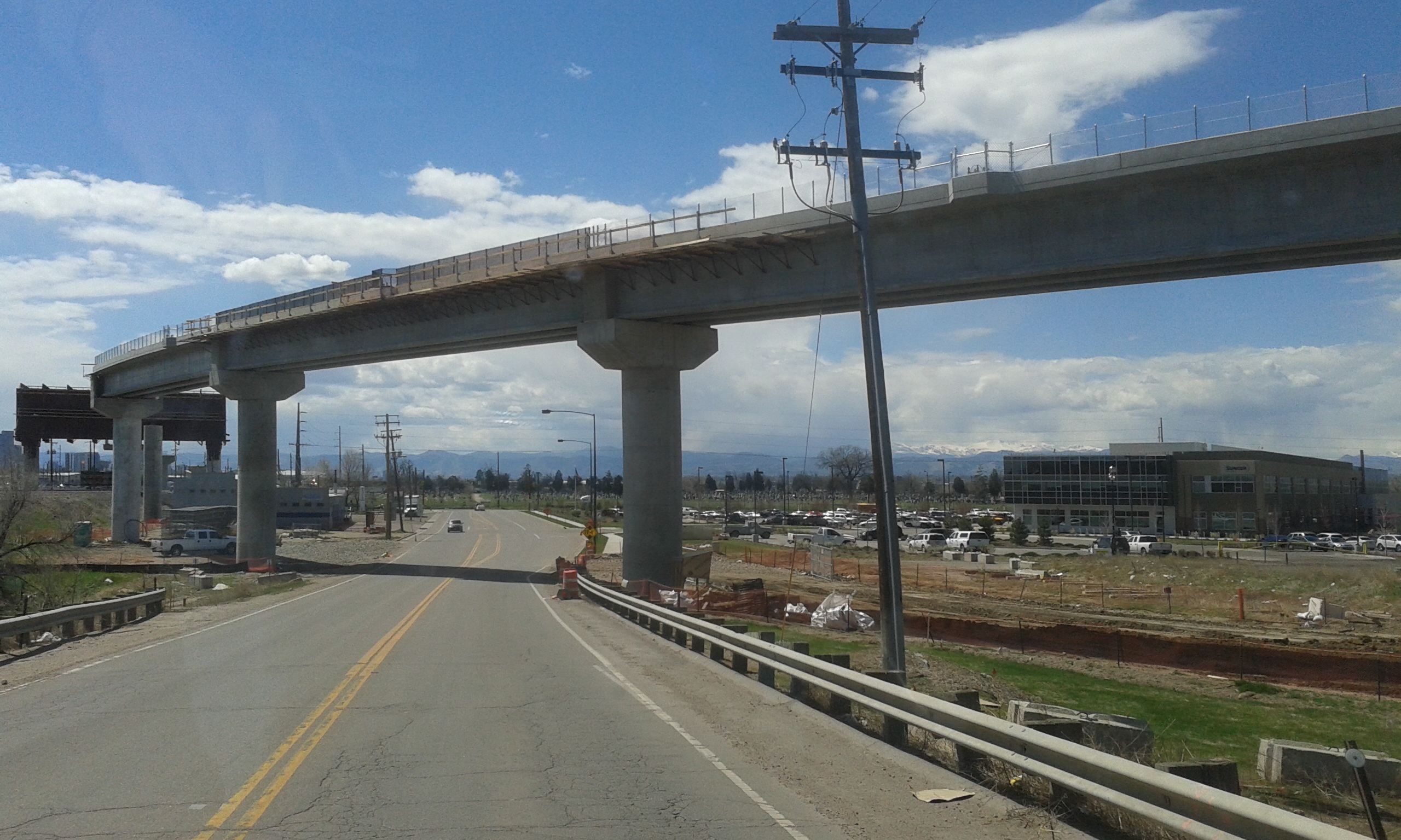 Skyway Bridge over Brighton Blvd during construction